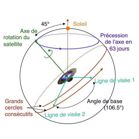 Gaia spacecraft measurement principle.